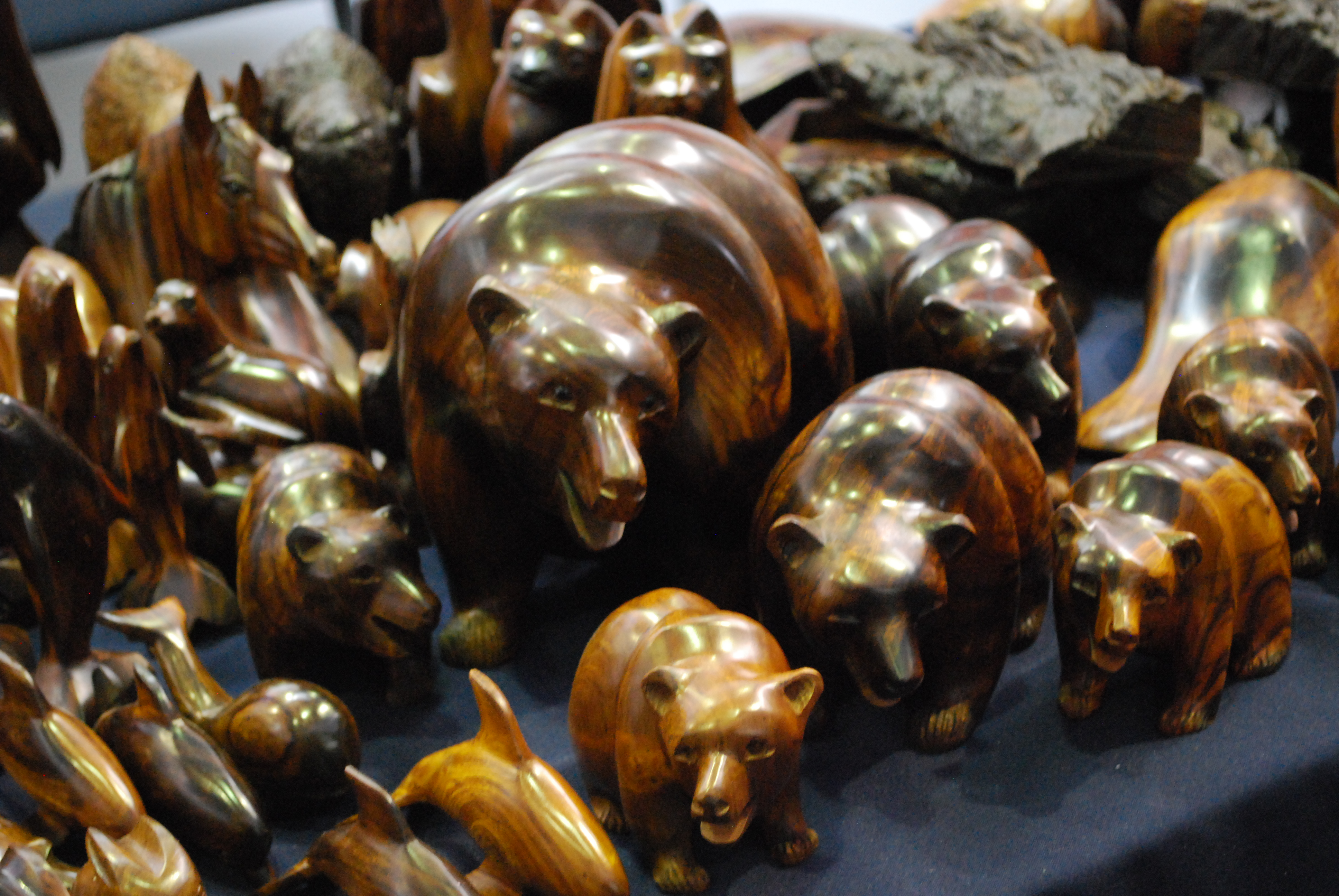 Bears carved of ironwood at the 2010 FONART exhibition in Mexico City